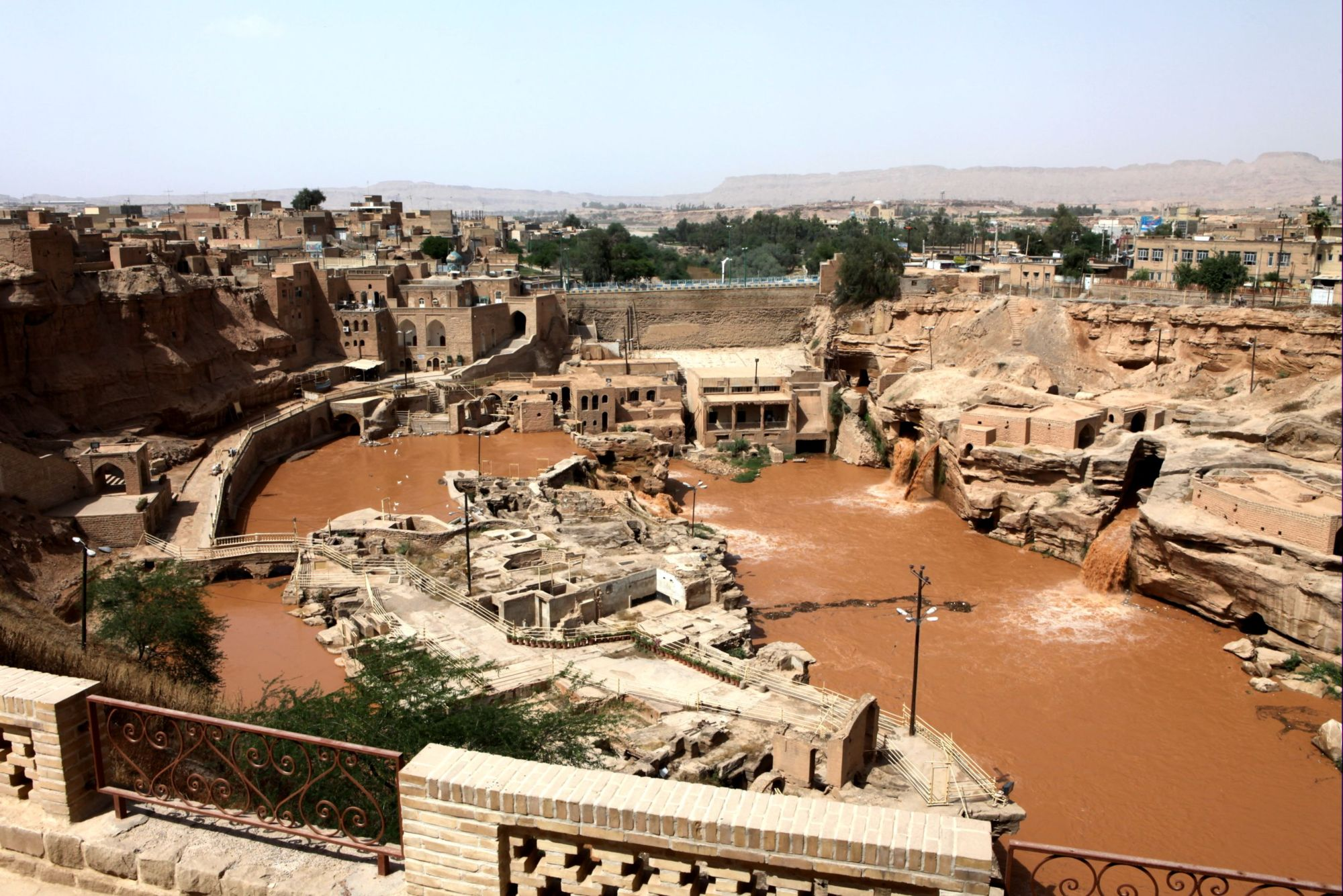 Shushtar The water has been coloured by spring downpours. The earth gives it a terracotta colour.